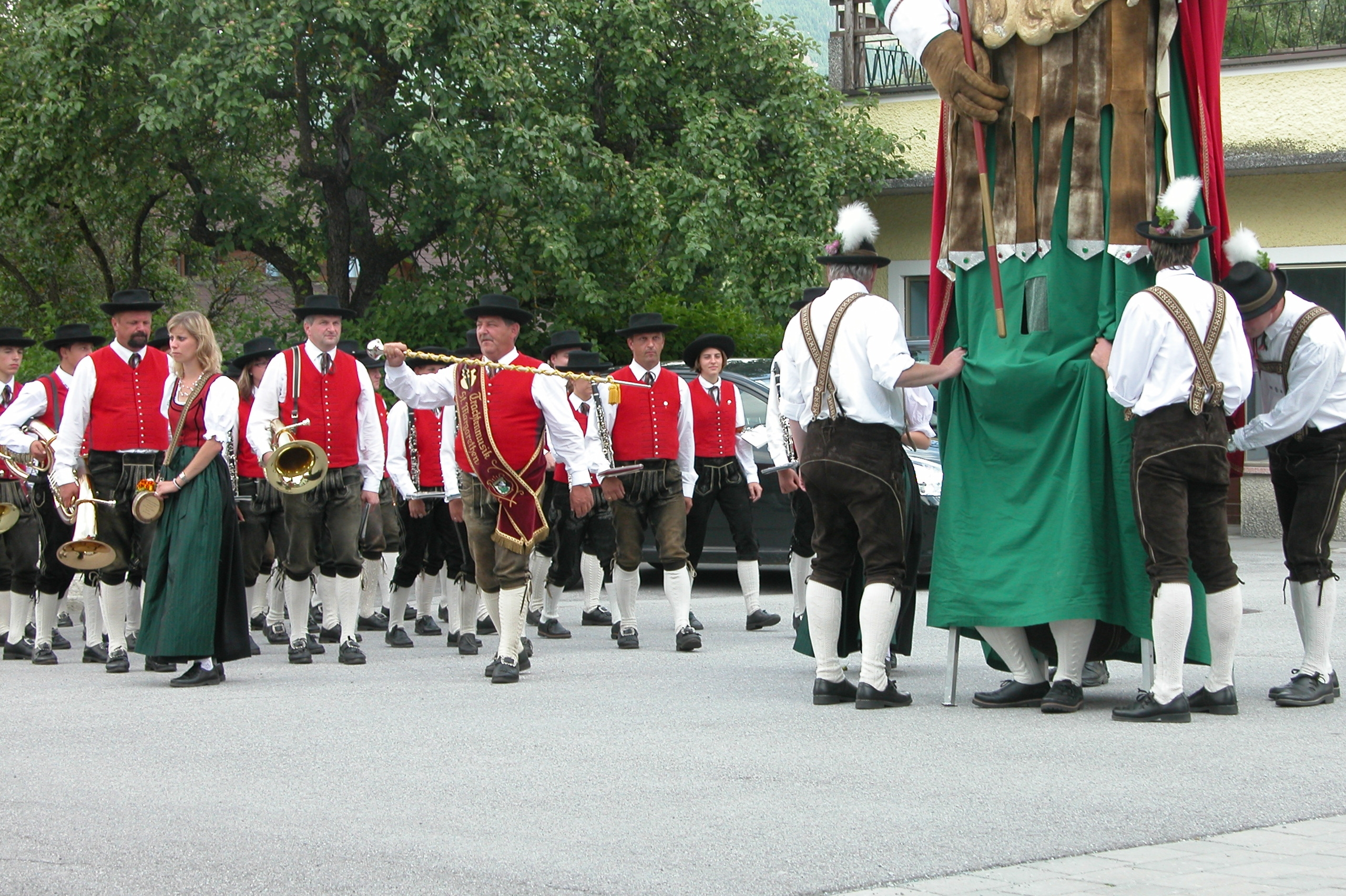 Giant Samoson St.Margarethen Austria (Lungau, Salzburg State)